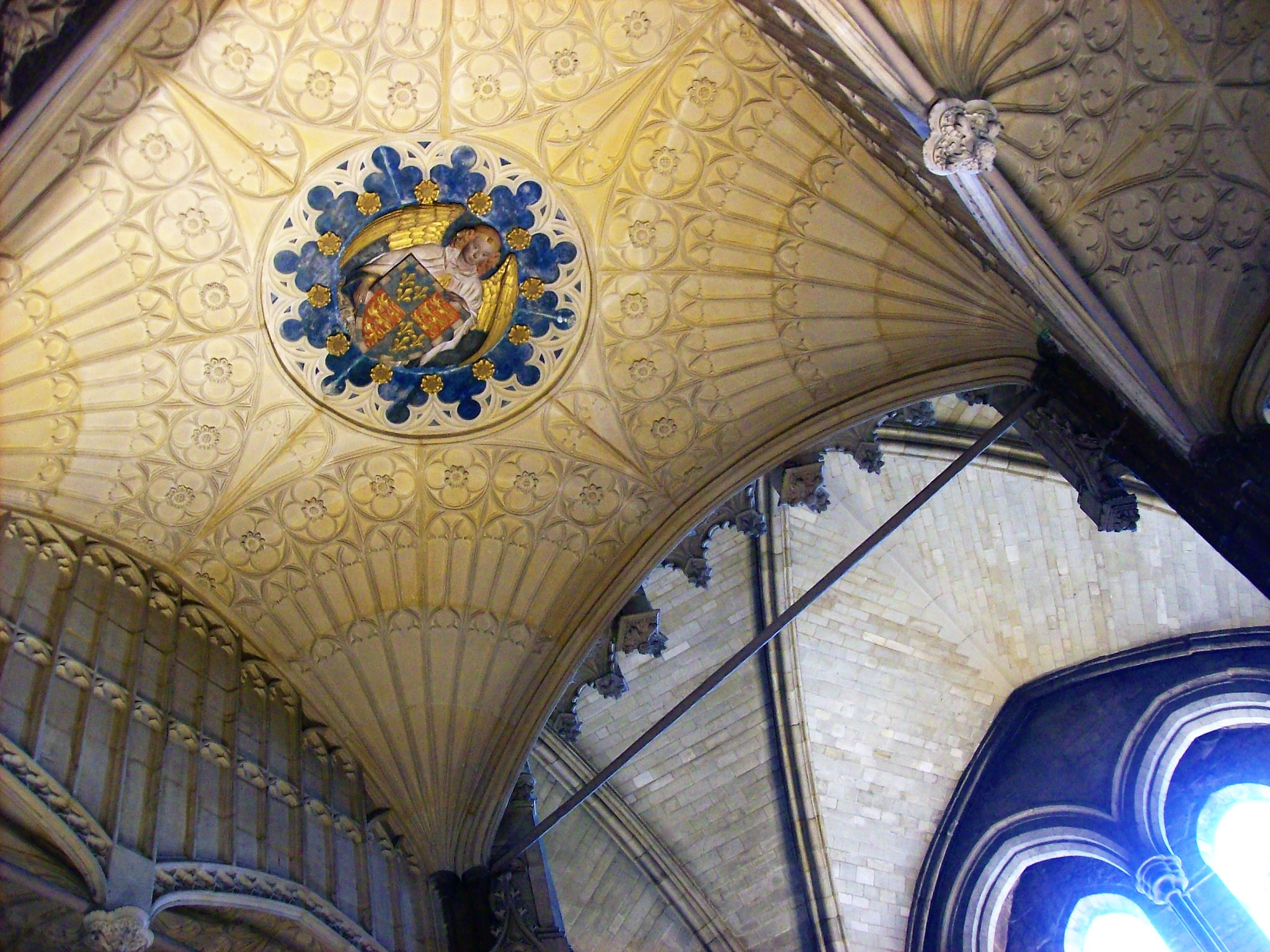 Canopy of Wayneflete tomb, Winchester. William Waynflete (c. 1398[1] – 11 August 1486), born William Patten, was Provost of Eton (1442–1447), Bishop of Winchester (1447–1486) and Lord Chancellor of England (1456–1460). Arms of Cardinal Henry Beaufort (c. 1375 – 11 April 1447), Bishop of Winchester, his patron, whom Wayneflete succeeded.